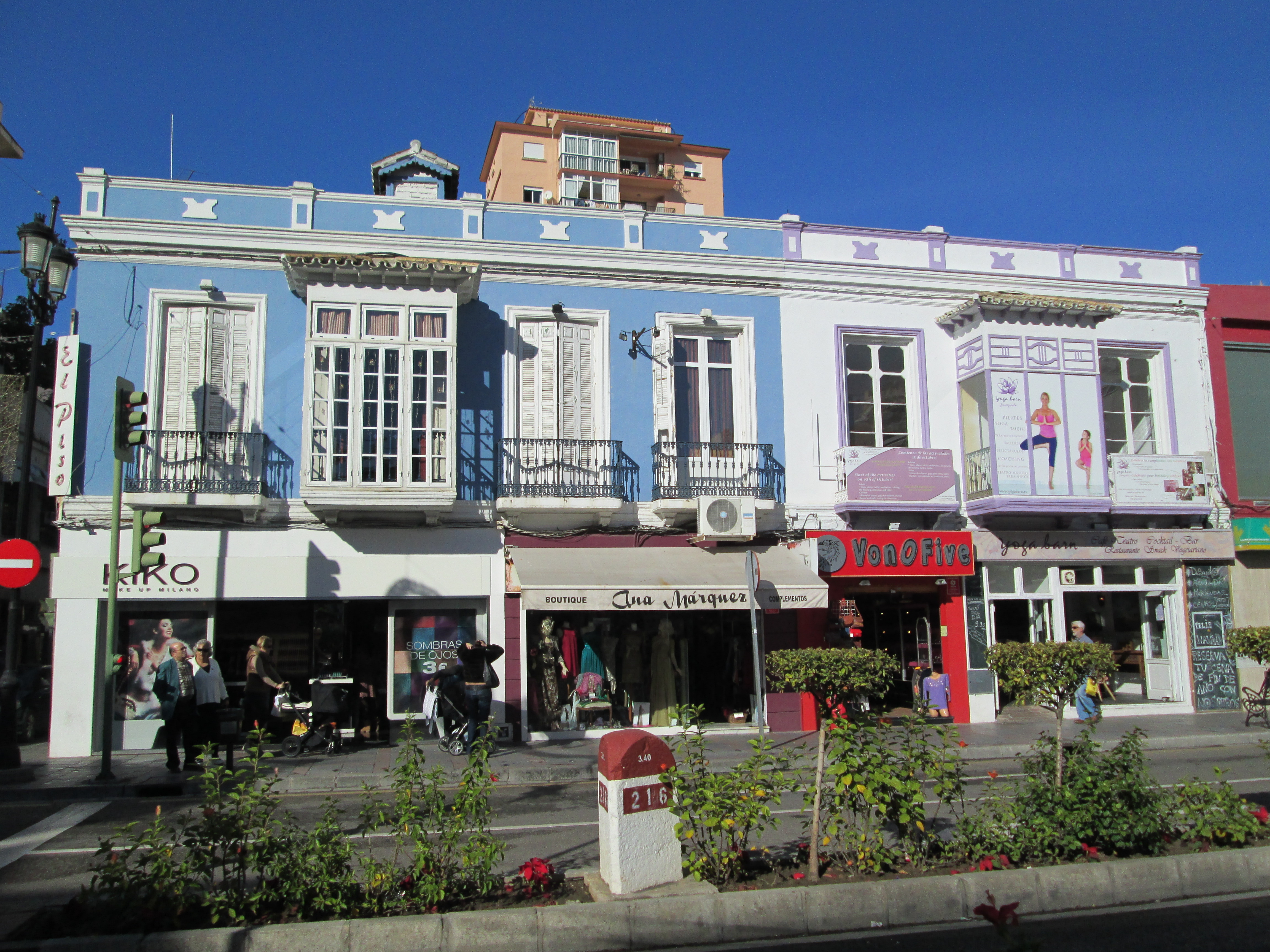 Buildings in Avenida Condes de San Isidro